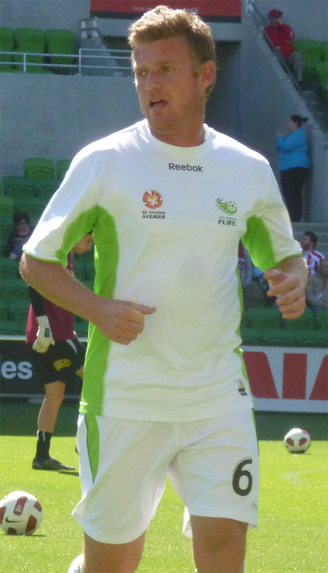 Australian football player Ufuk Talay warming up for North Queensland Fury in January 2011.